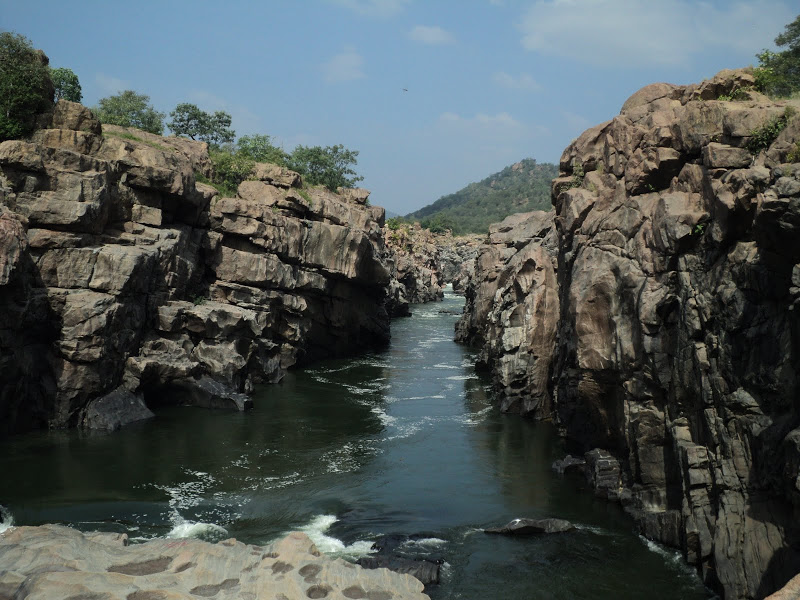 View from the tip of Mekedatu where water splits by hitting a boulder.